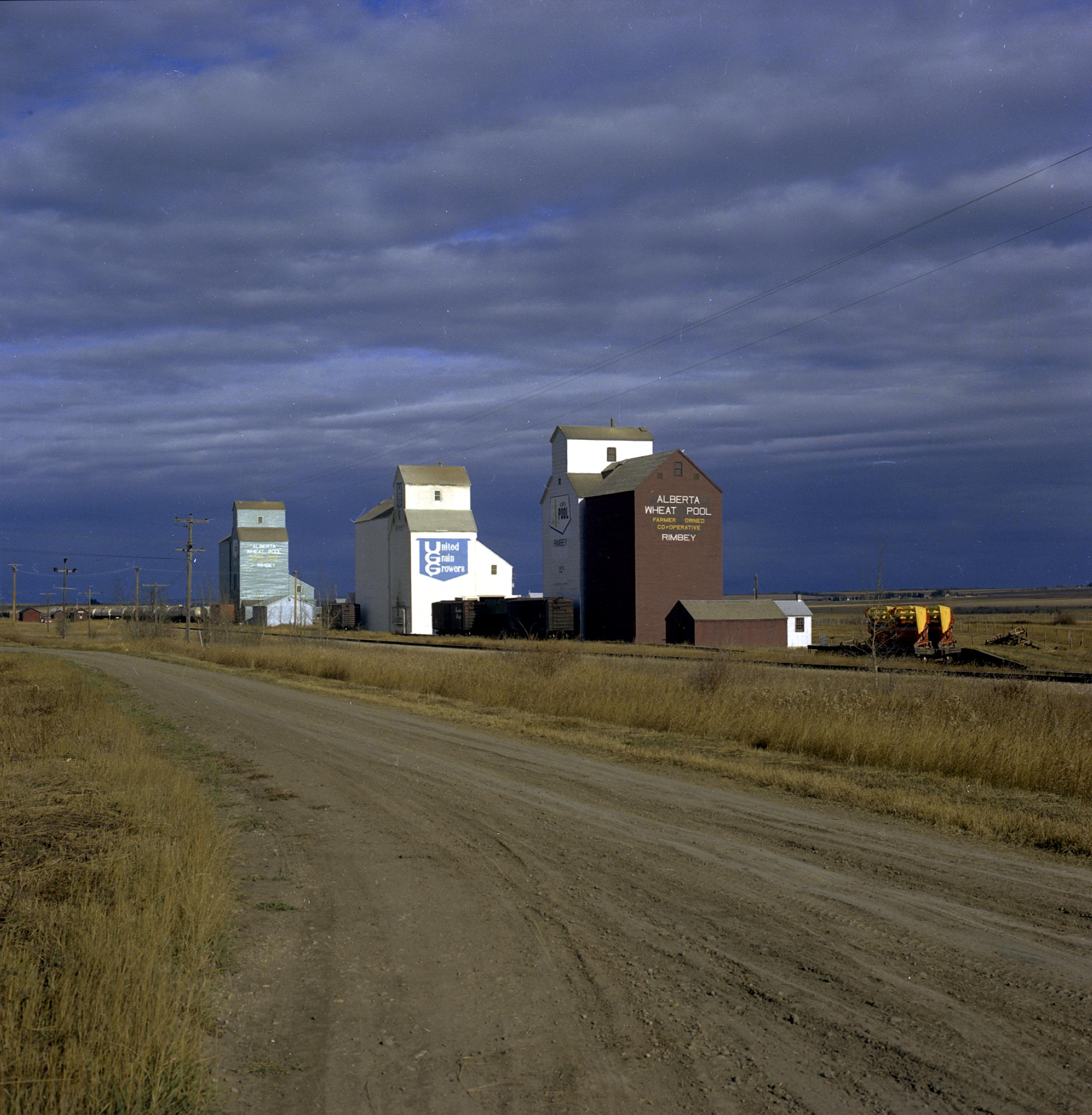 Alberta Wheat Pool and United Grain Growers grain elevators in Rimbey, Alberta.